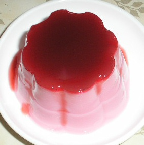 raspberry pudding